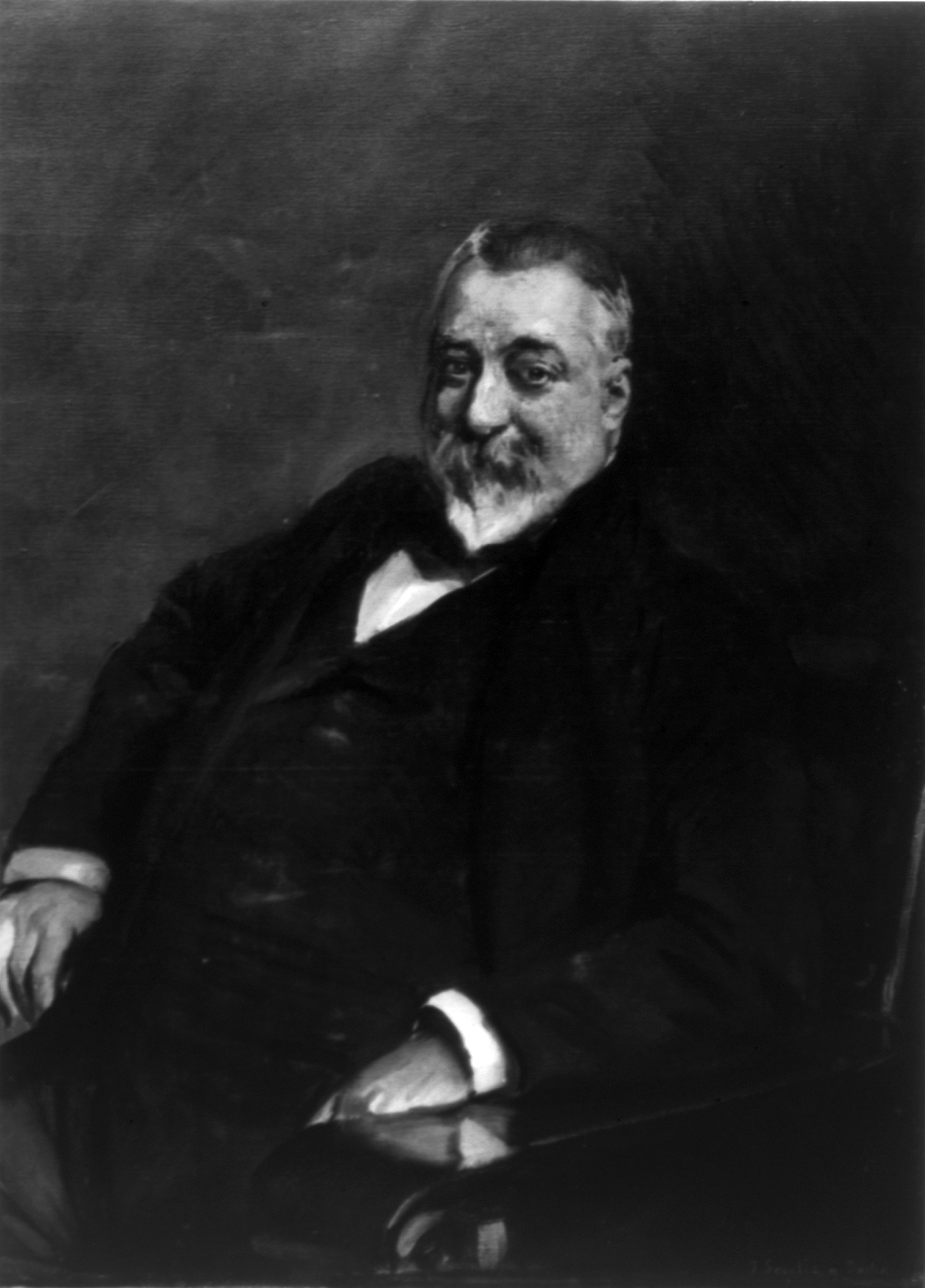 Marcelino Menéndez y Pelayo, Spanish historian